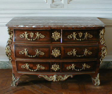 commode louis XV versailles